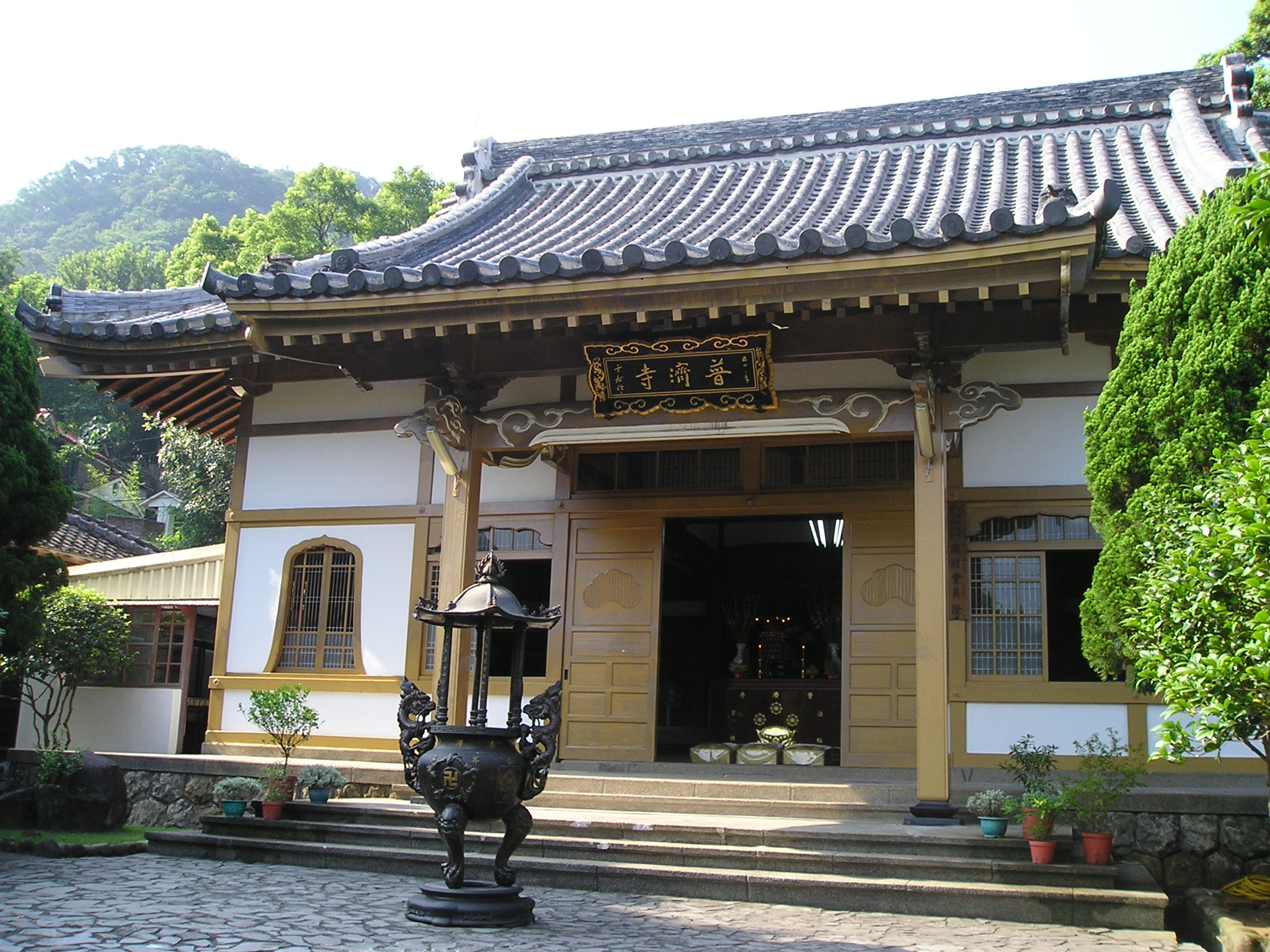 Fusai-tera is temple at taipei, taiwan.